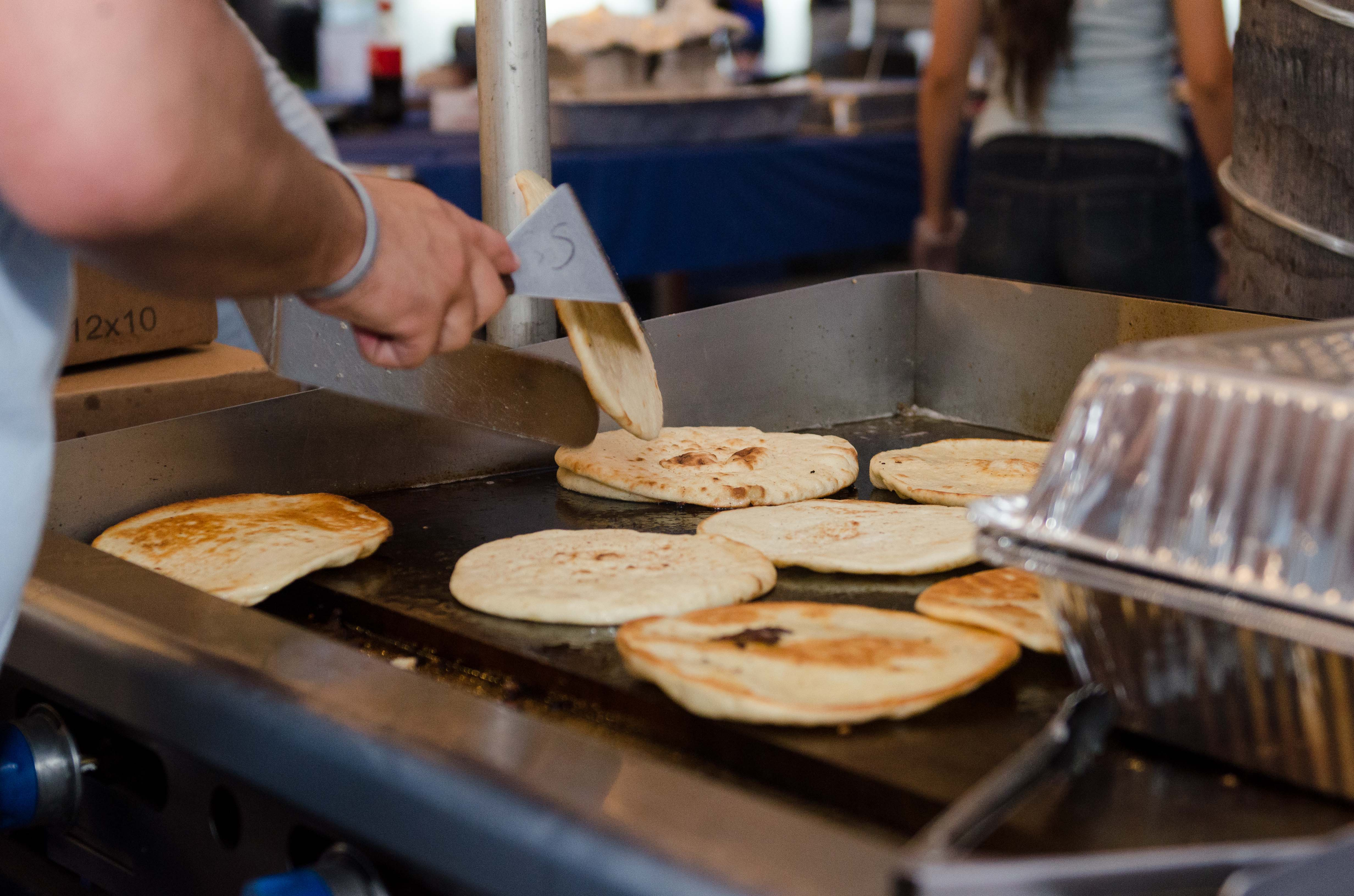 Gyros pita making